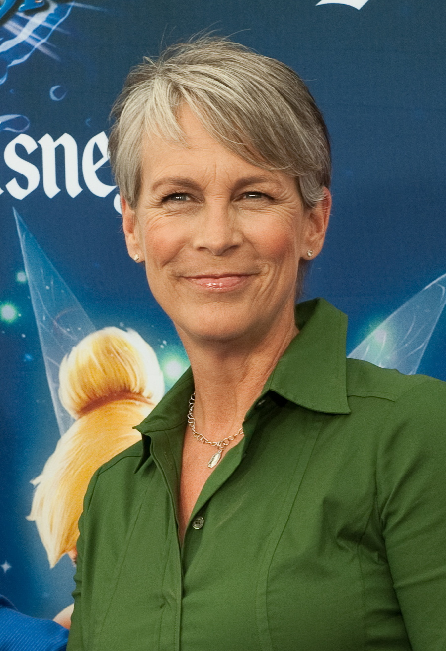 Jamie Lee Curtis at the World of Color premiere at Disney California Adventure Park, June 2010